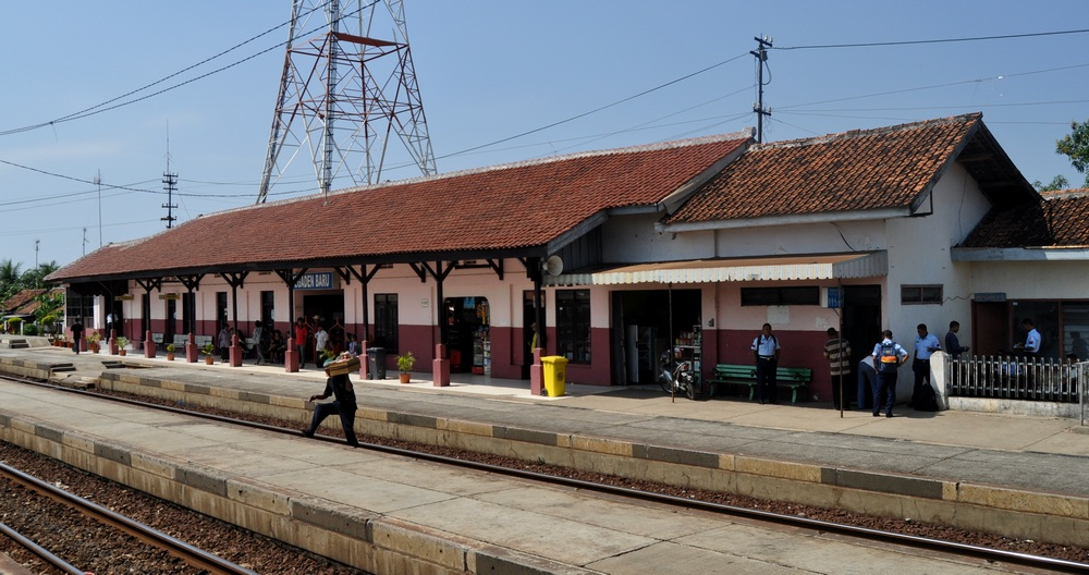 Pegadenbaru train station in West Java